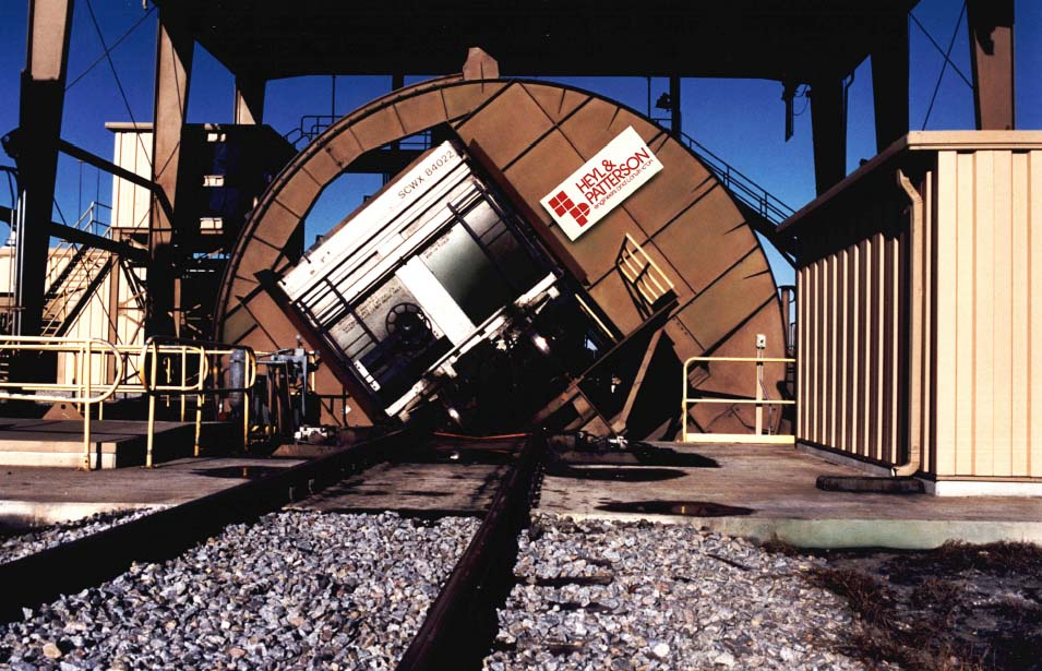 Heyl & Patterson Rotary Dumper